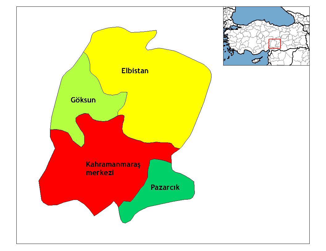 Kahramanmaraş districts in 1944